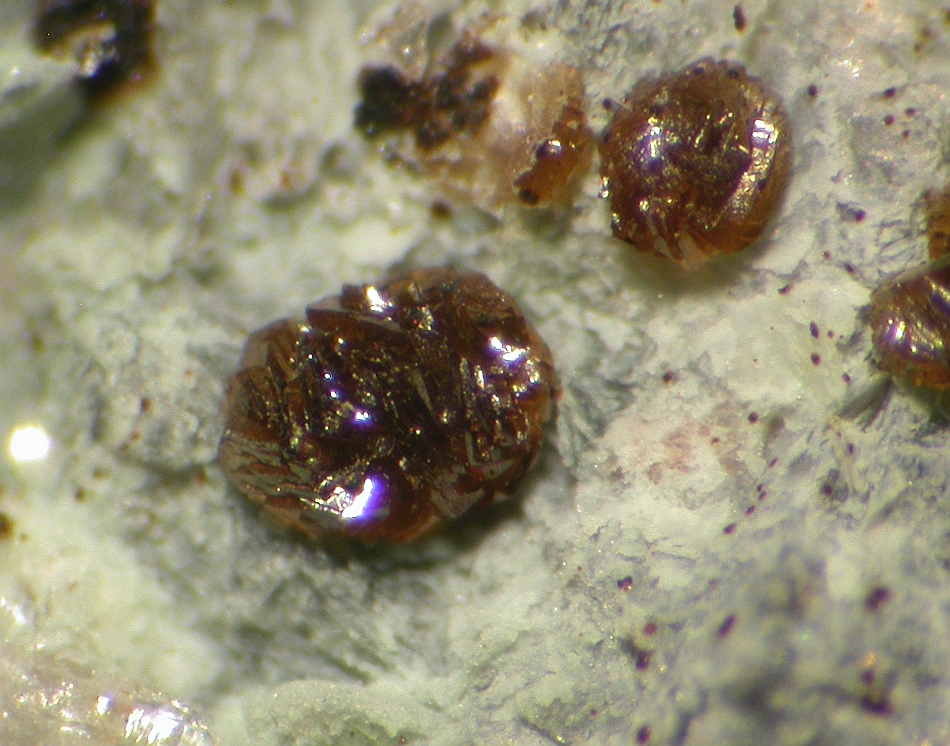 Hechtsbergite Locality: Hechtsberg quarry, Hausach, Black Forest, Baden-Württemberg, Germany Field of view 4 mm.